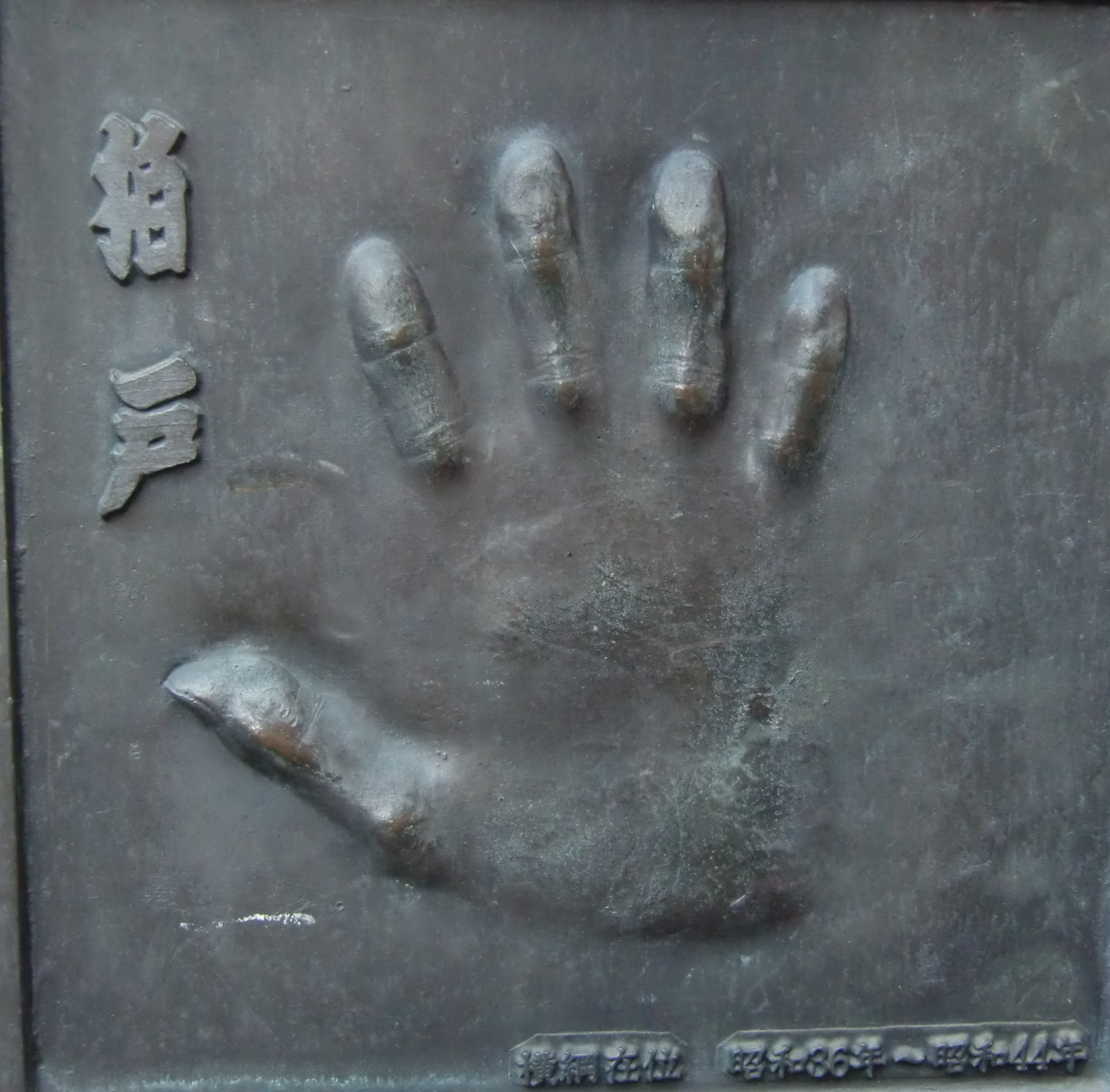 handprint of wrestler on a public monument in Ryogoku Japan